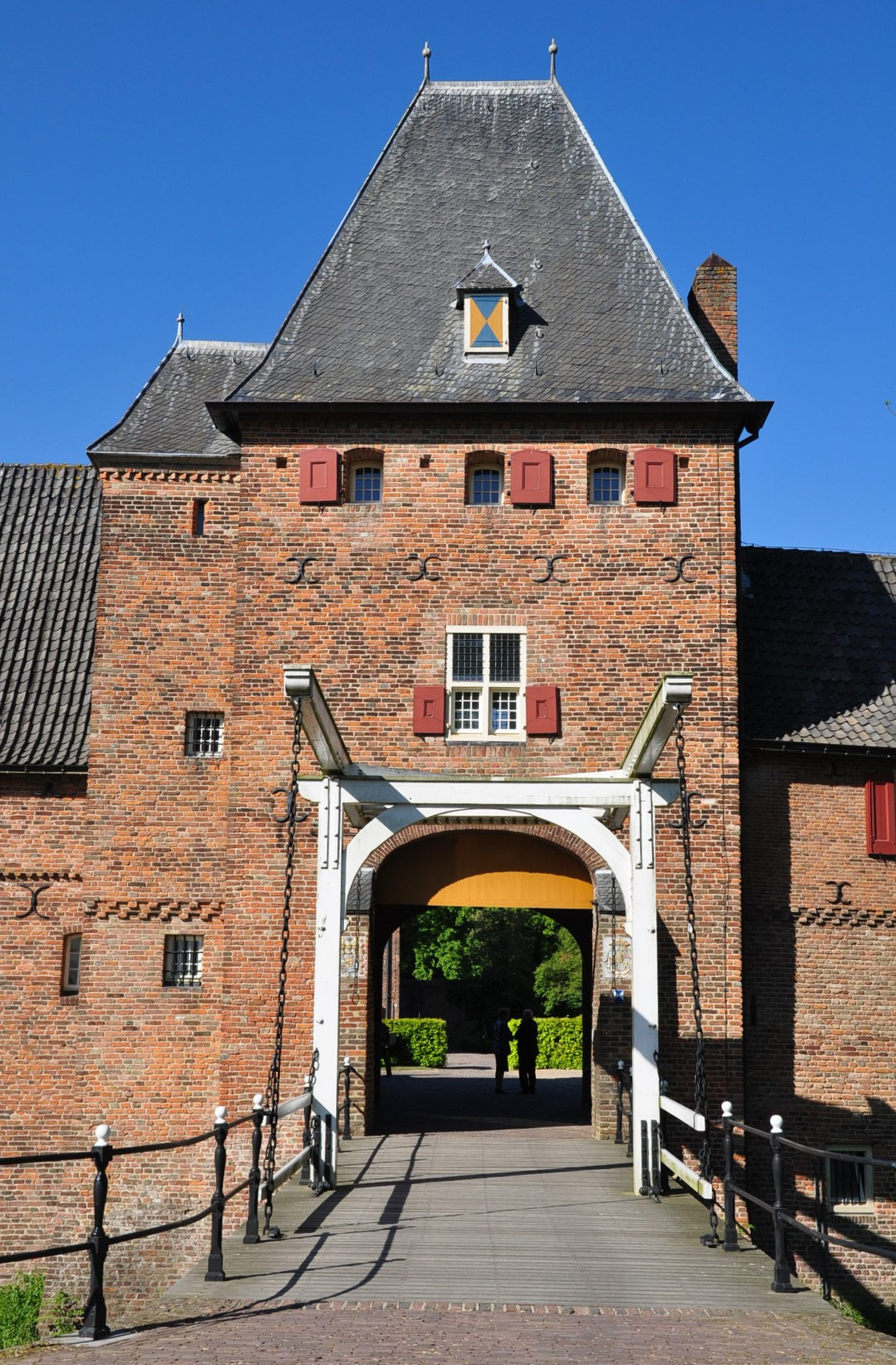 Doorwerth Castle, entrance gate (Doorwerth, Renkum municipality, Netherlands).